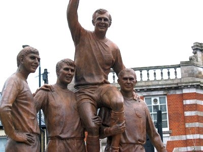 no original description West Ham Champions statue, Upton Park - left to right, Martin Peters, Geoff Hurst, Bobby Moore (aloft), Ray Wilson.